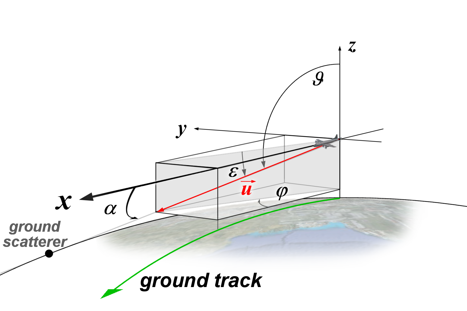 Definition of angles in the vertical plane of Side Looking Airborne Radar (SLAR): α = cone angle β = incidence angle φ = azimuth angle θ = 90° - ε = Look angle ϑ = ε + 90° Angle used for spherical coordinate system